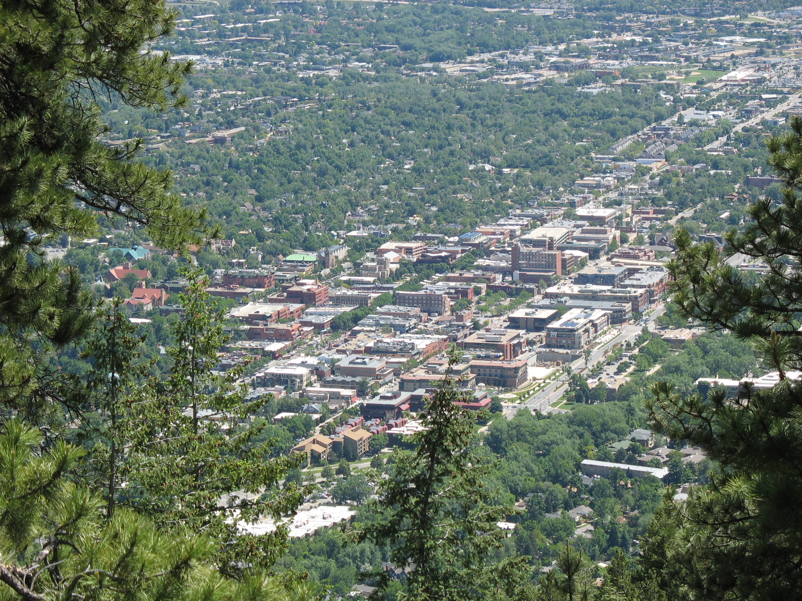 Boulder as seen from foothills